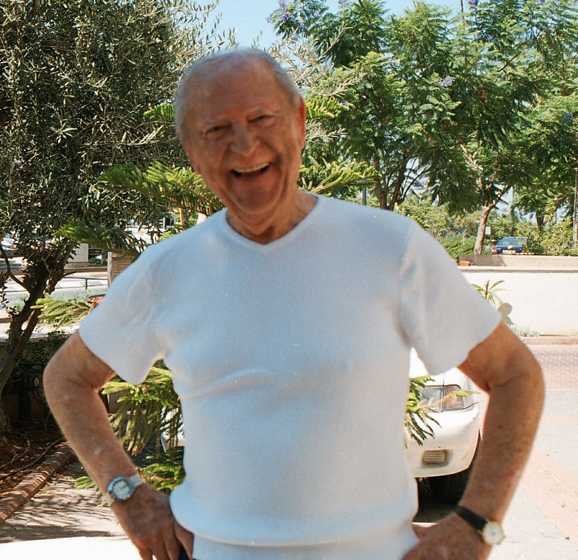 Prof. Bernardo Beiderman outside his home in Israel